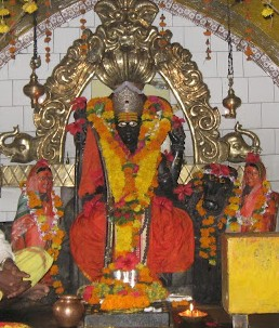 Mailar Mallanna temple Main God idol and Mailar mallanna temple situated 15 from Bidar (karnataka)